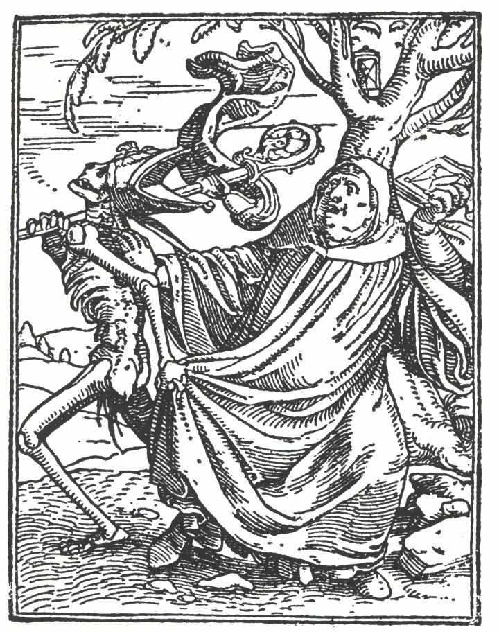 Dance macabre